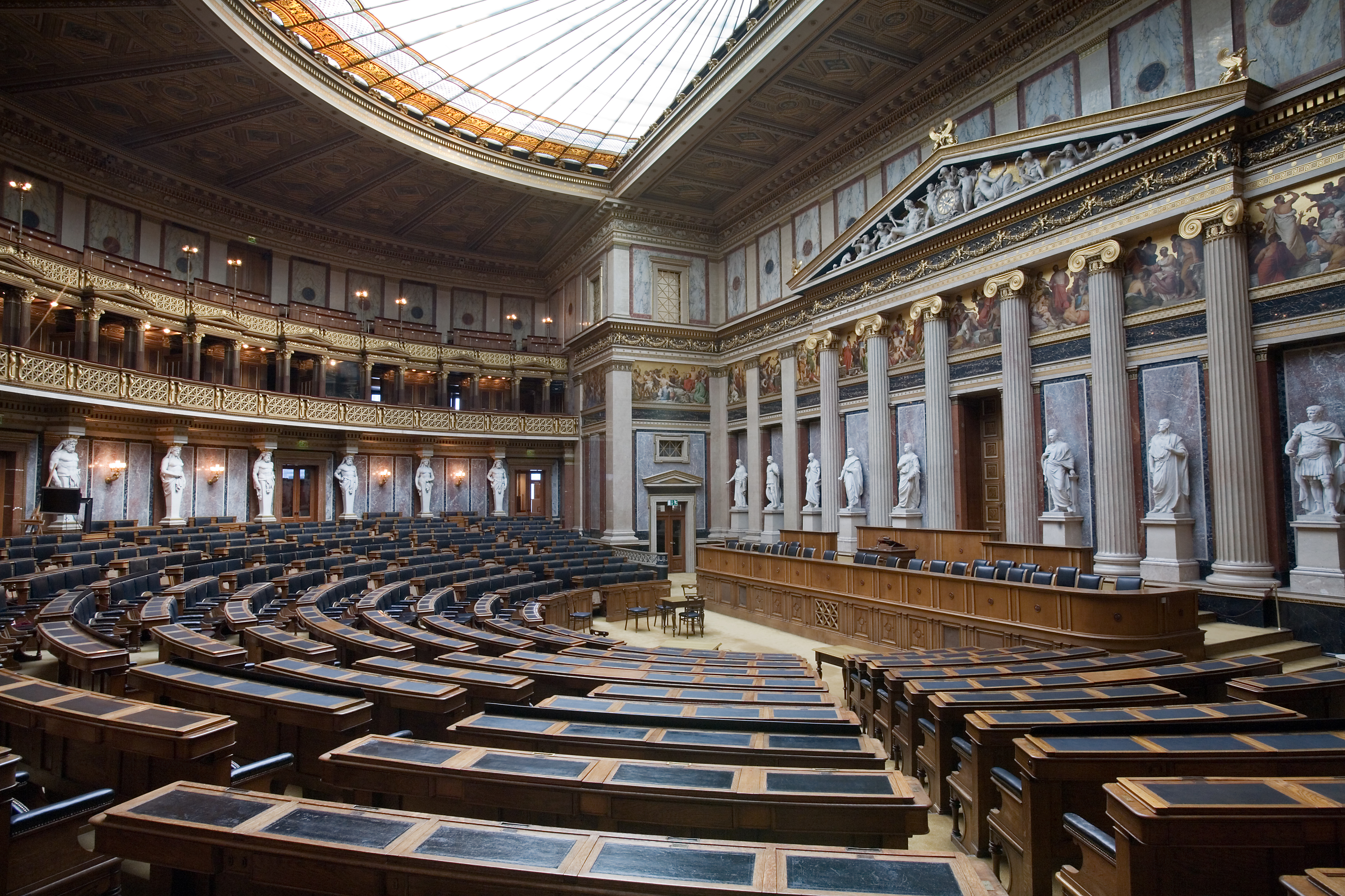 Parlament, Vienna, Austria